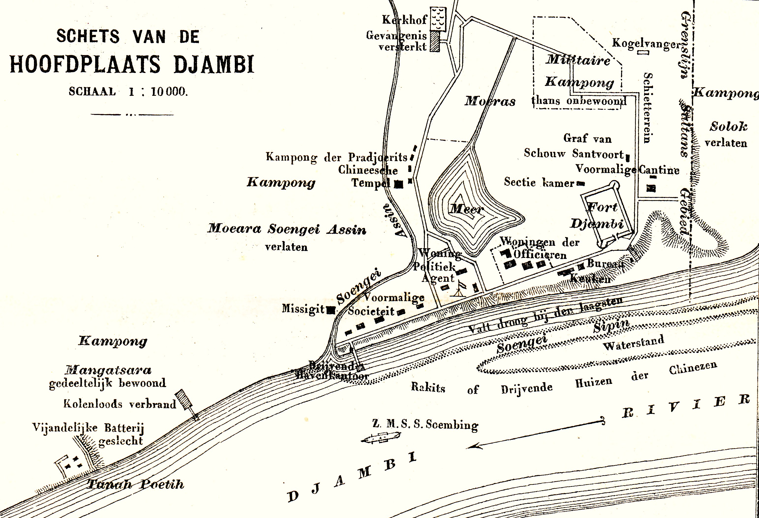 Schets van de hoofdplaats Djambi